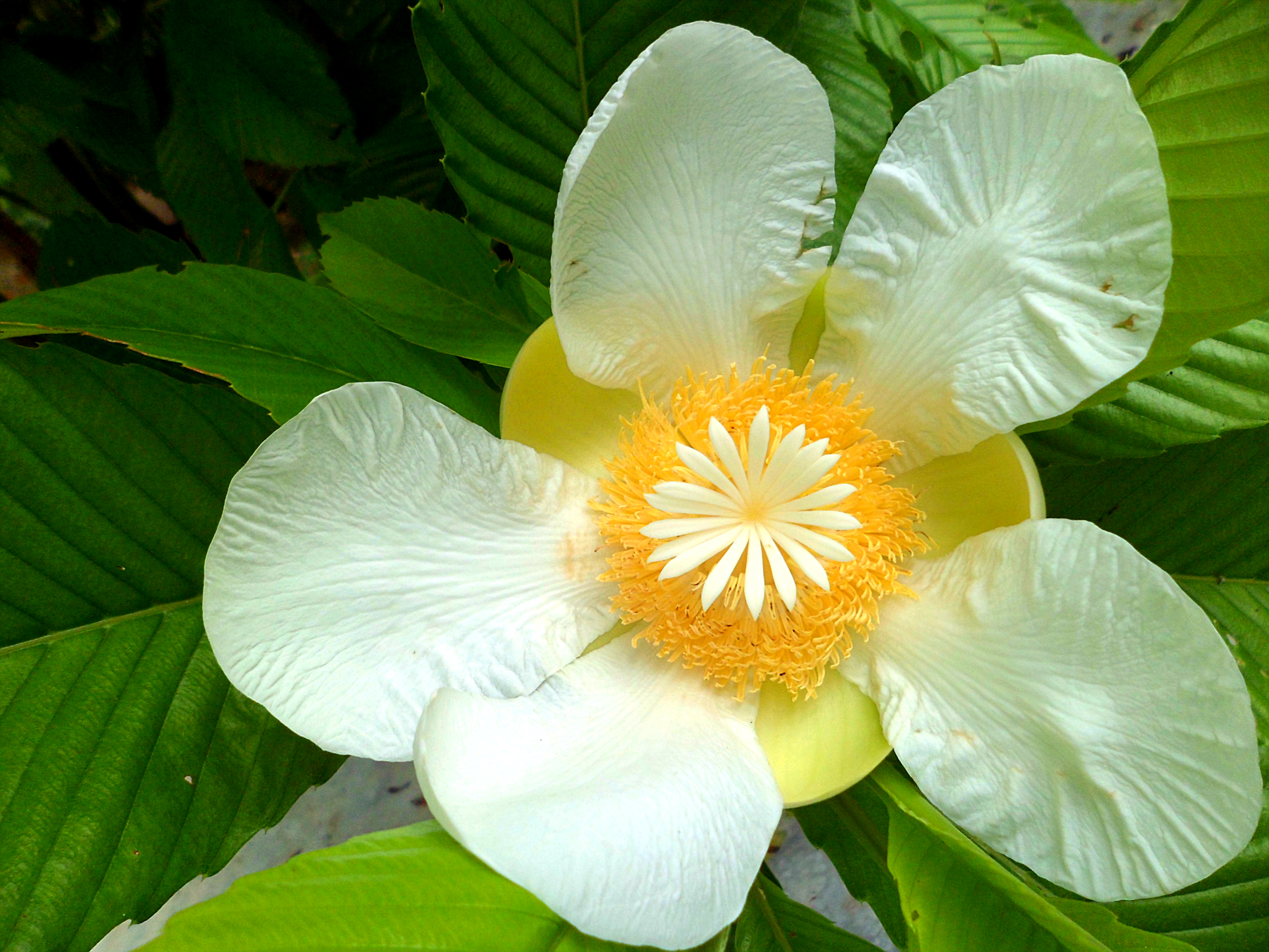 Flower